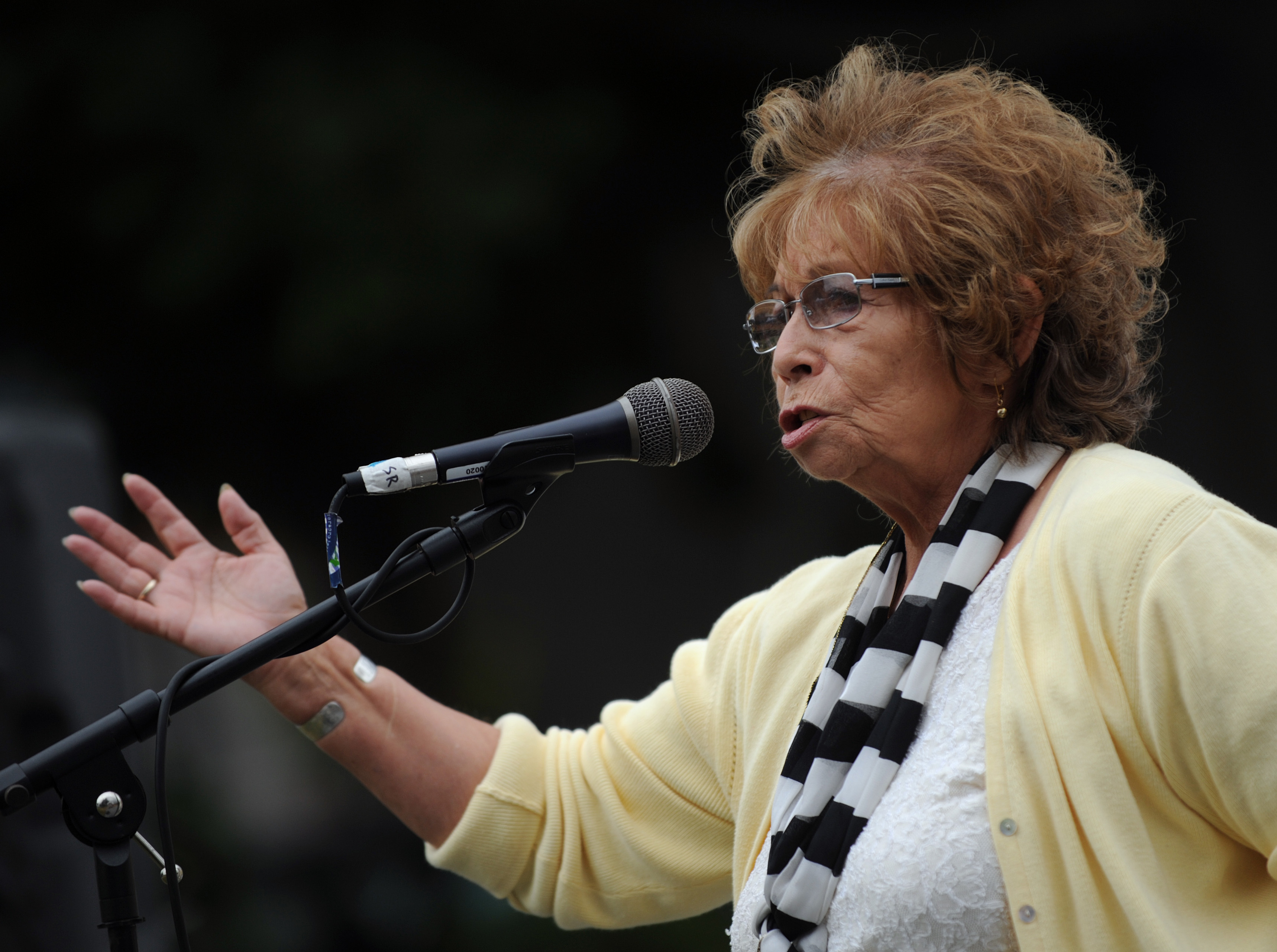 Cecile A. Hansen, Chairwoman of the Duwamish Tribe, speaks at the 5th Annual Duwamish River Festival. The river is part of the ancestral homeland for the people known today as the Duwamish Tribe. Local tribes have been a driving force in cleaning up the river. Visit to learn more about EPA's efforts to clean up and restore the lower Duwamish River.